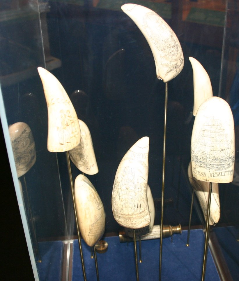 A small collection of Scrimshaw on display at the Smithsonian National Museum of American History.